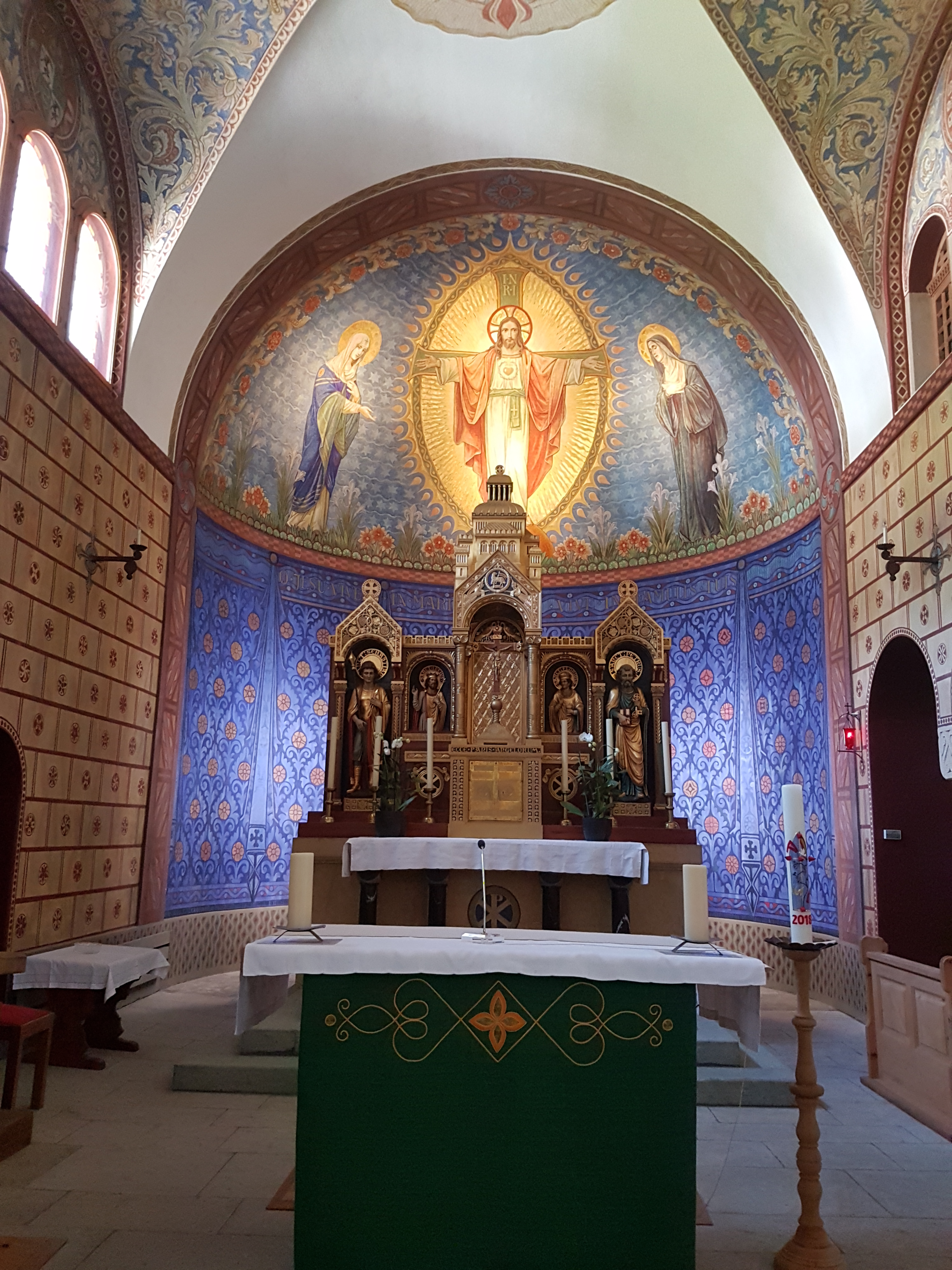 Baselgia catolica Herz-Jesu (catholic Church: Sacred Heart) in Samedan, Grisons, Switzerland. Altar.